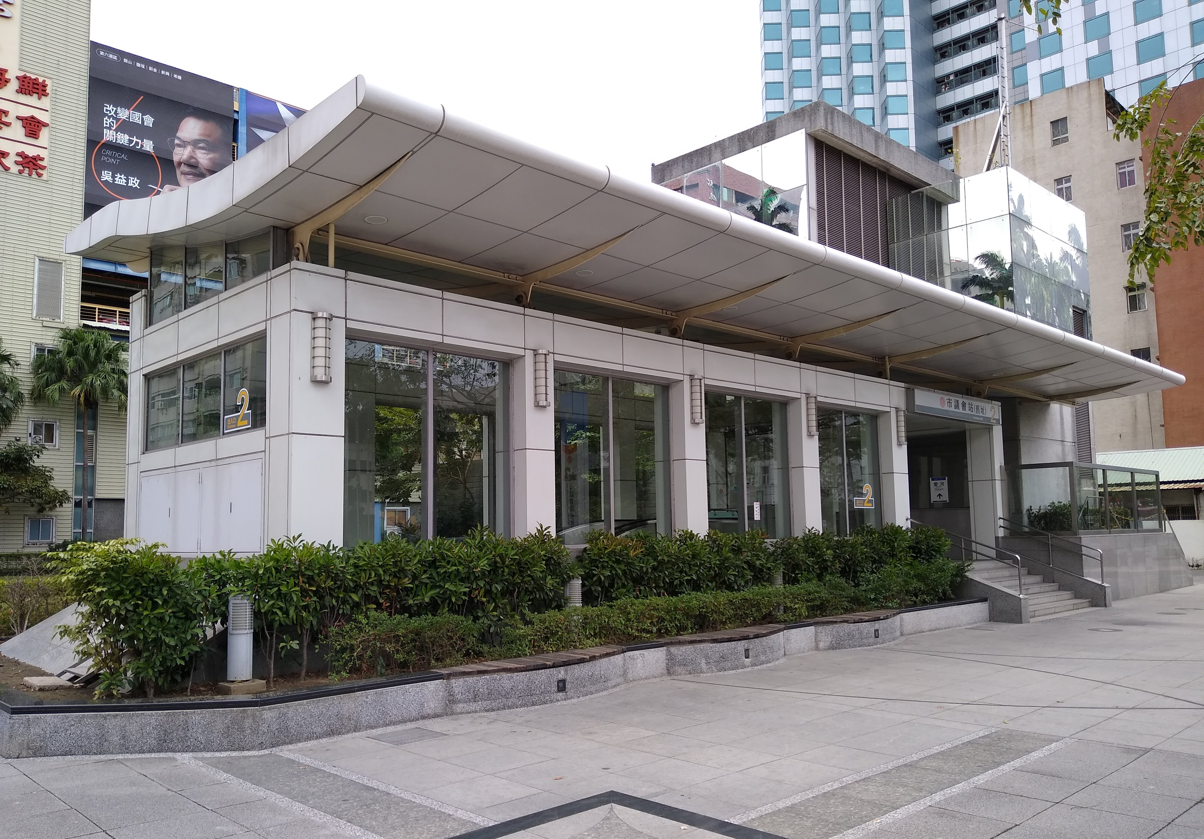 City Council Station (Former site) Entrance 2.